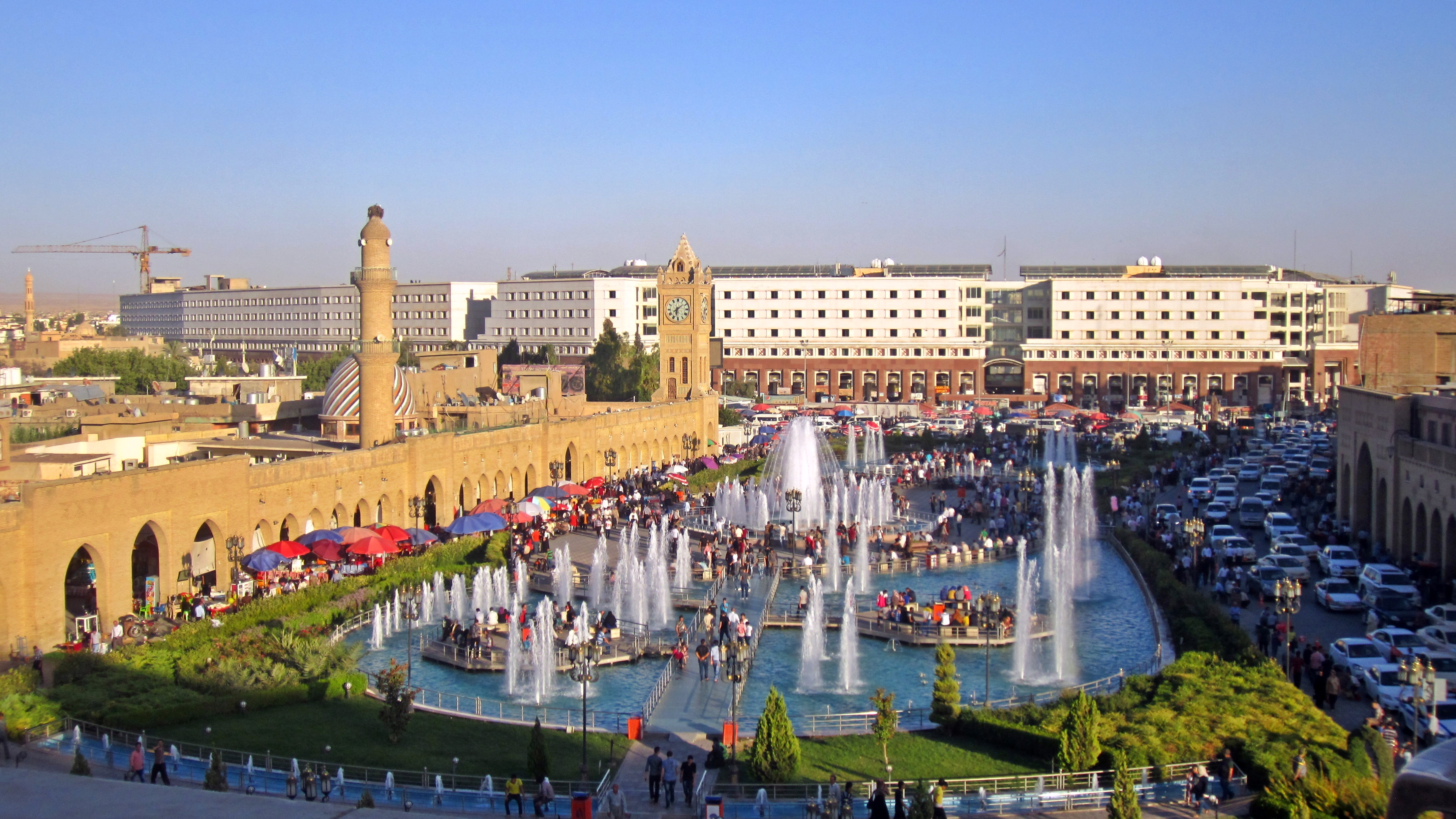 The main square in Erbil, Kurdistan, just south of the Citadel's South Gate and between the two main bazaar areas.